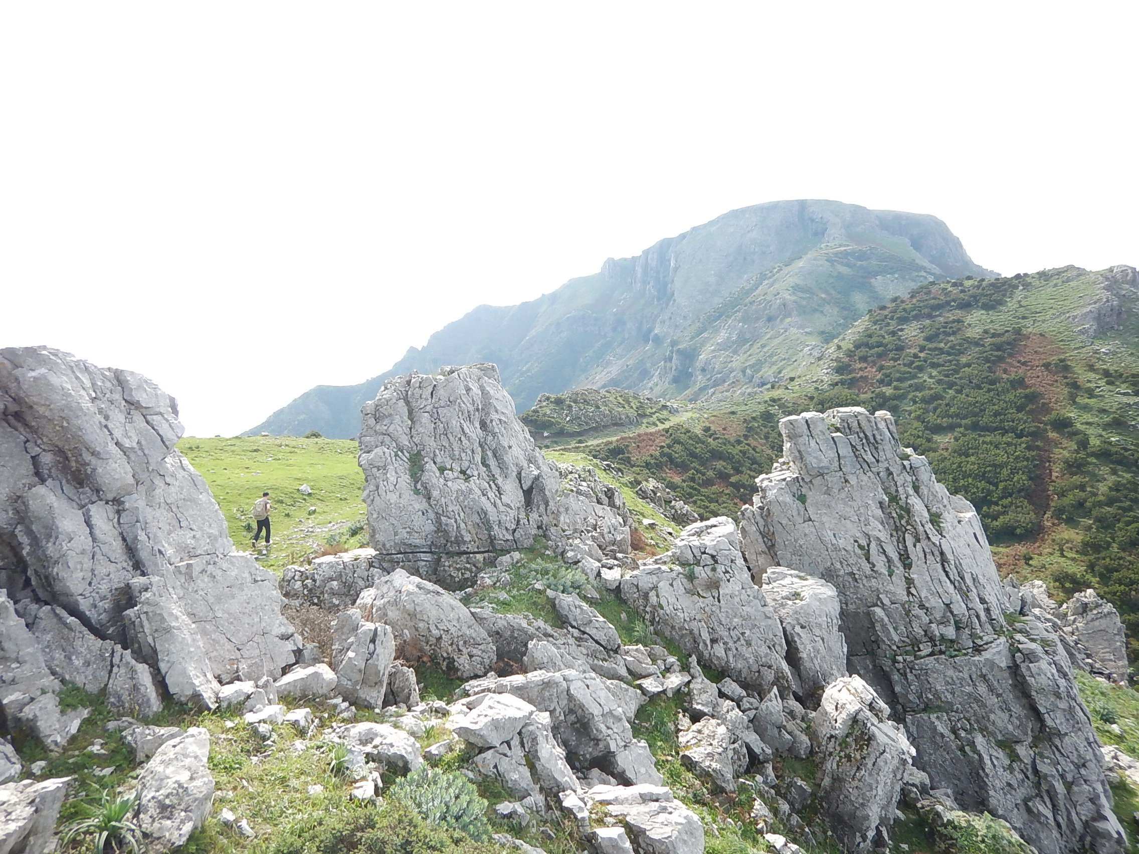 the mount Scuderi, Peloritani mounts, Sicily